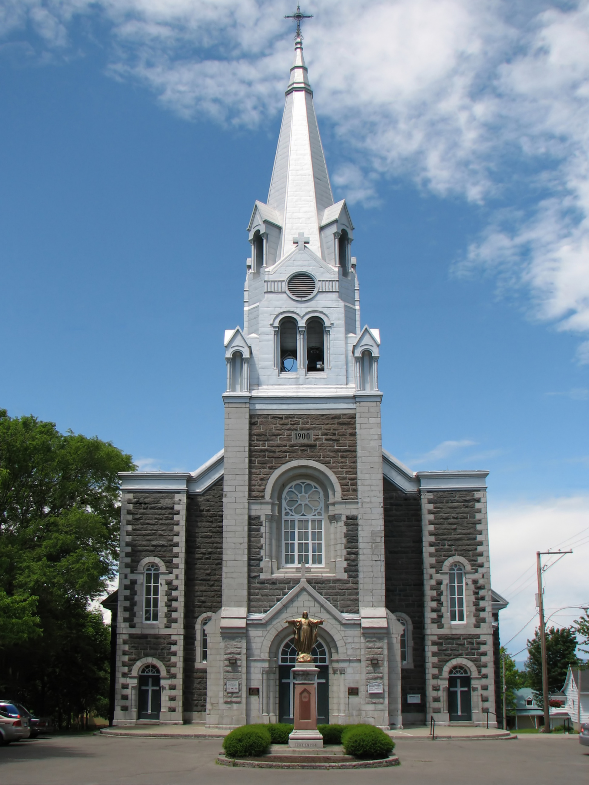 Saint Philippe and Saint Jacques Church (1931-32), Saint-Vallier, province of Quebec, Canada